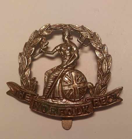 Photo of Royal Norfolk Regiment Cap Badge from personal collection